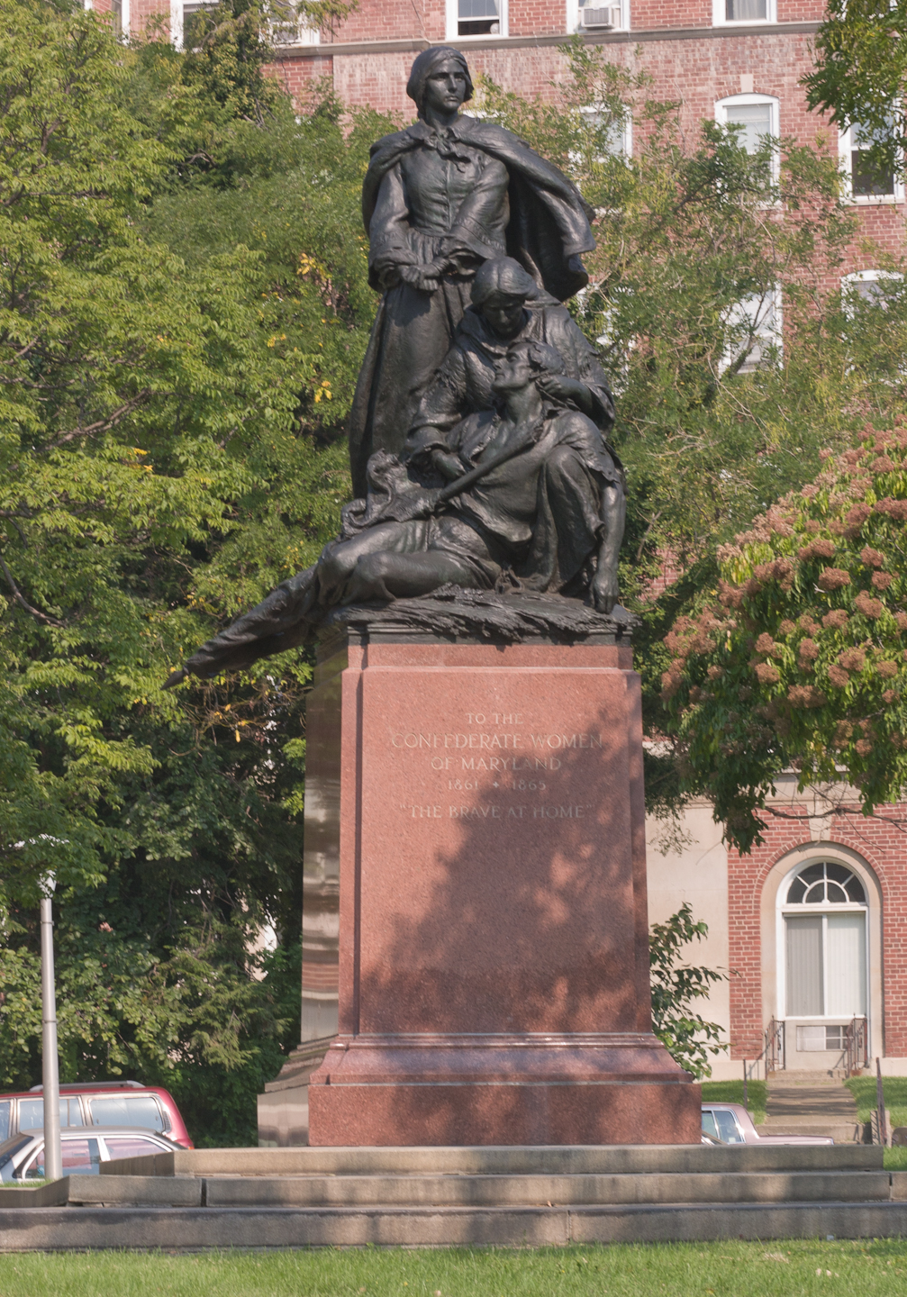 Confederate Women's Monument in Baltimore, sculpture by Joseph Maxwell Miller. Note that this statue was removed on the night of August 15-16, 2017 following the alt-right action in Charlottesville, Virginia